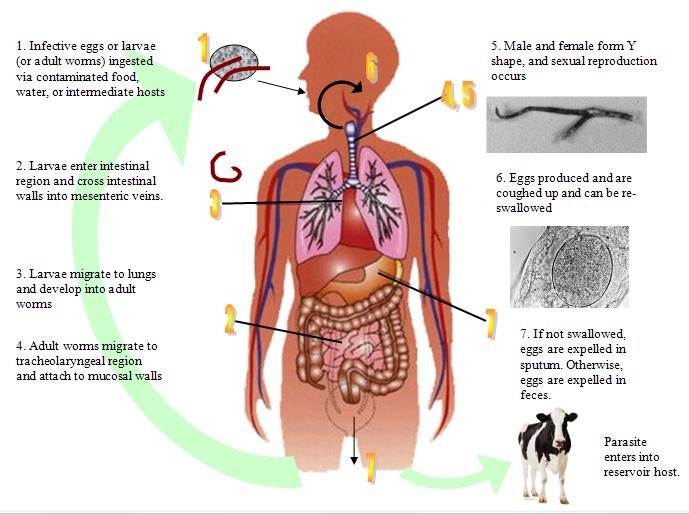 Life cycle diagram of M. laryngeus